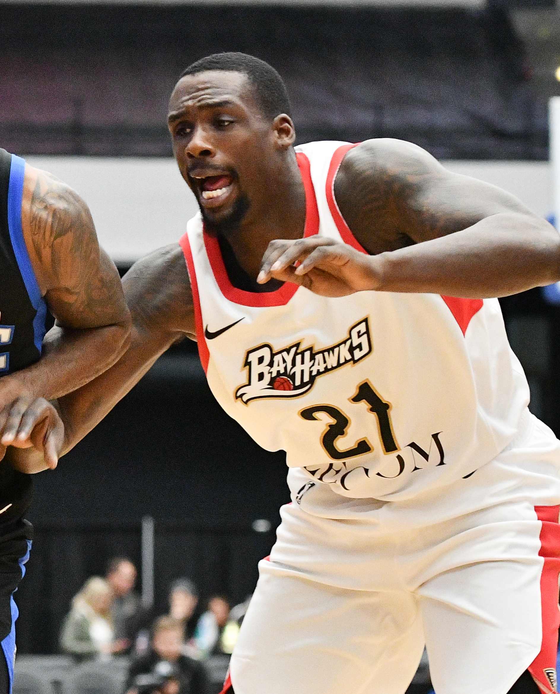 Vic Law, Rakim Sanders. Lakeland Magic vs Erie BayHawks. RP Funding Center. Lakeland, Fla. Nov. 17, 2019. (Photo by Tom Hagerty.)